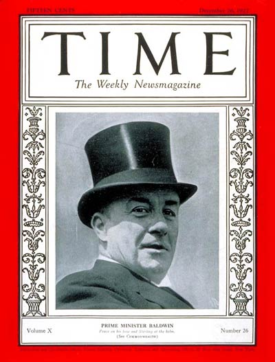 Stanley Baldwin on Time magazine cover, 1927.